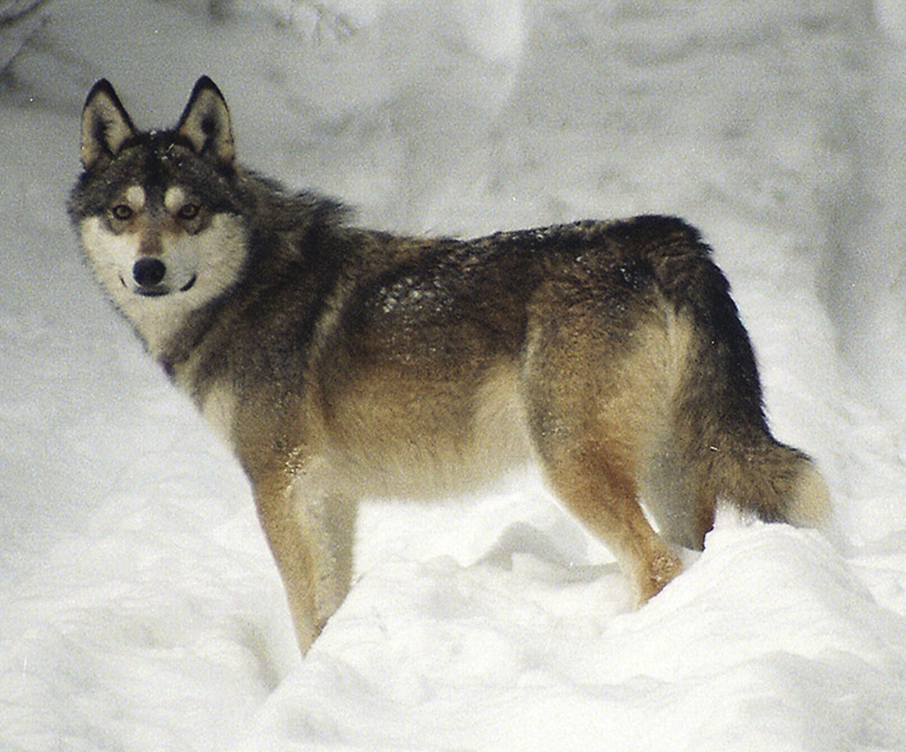 First-generation (F1) wolf-dog hybrid from Wildlife Park Kadzidlowo, Poland (photos: A. Krzywinski).